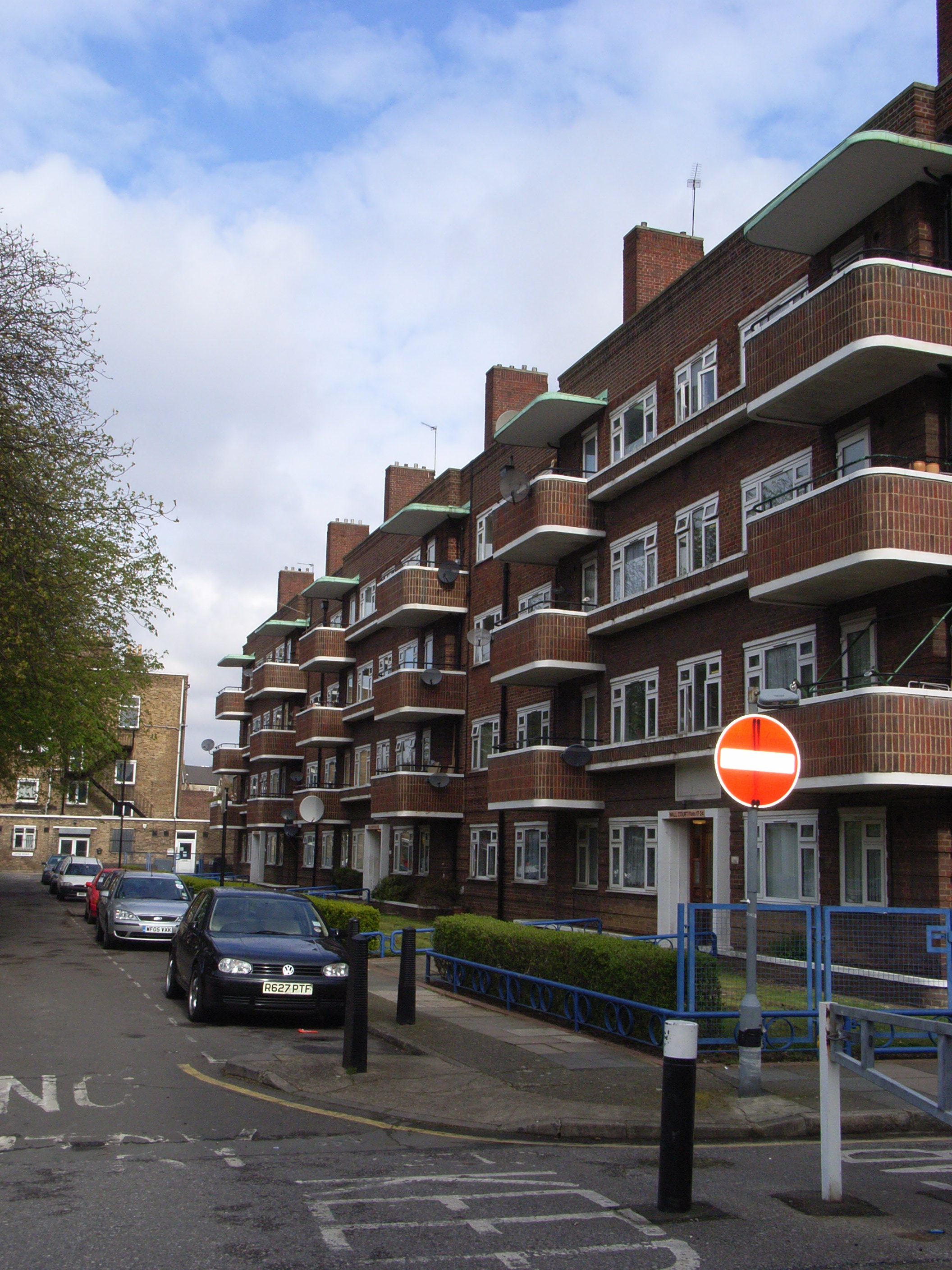 Apartments (Wall Court) at Stroud Green Road, London, N4